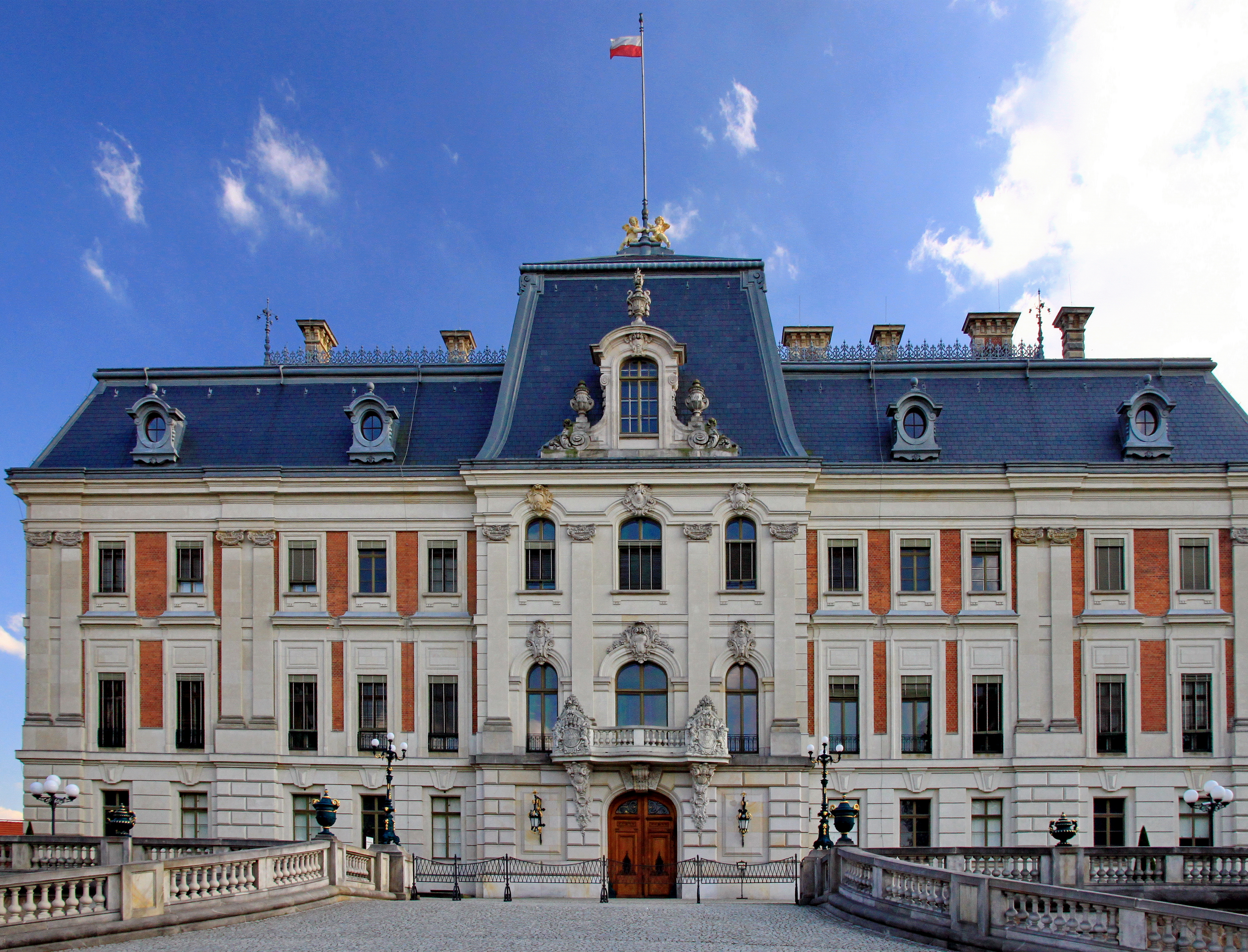 Pszczyna, palace, now Castle Museum, build in 17th century, 20th century